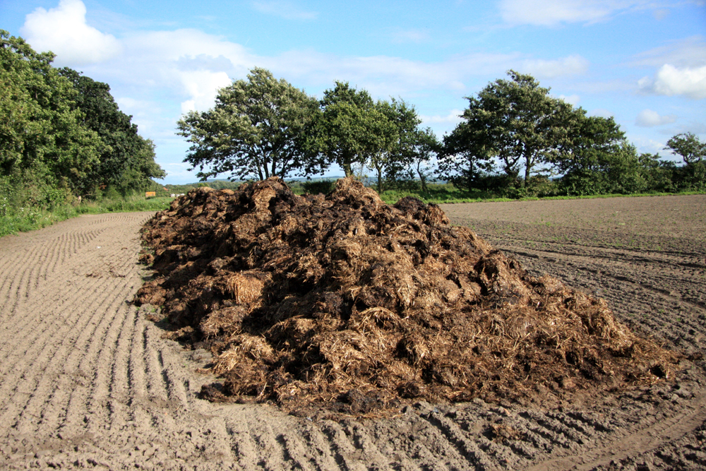 A pile of manure on a field somewhere in England